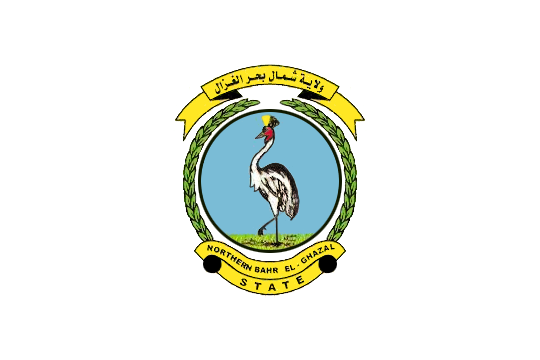 State flag of Northern Bahr el Ghazal in South Sudan and formerly Sudan.